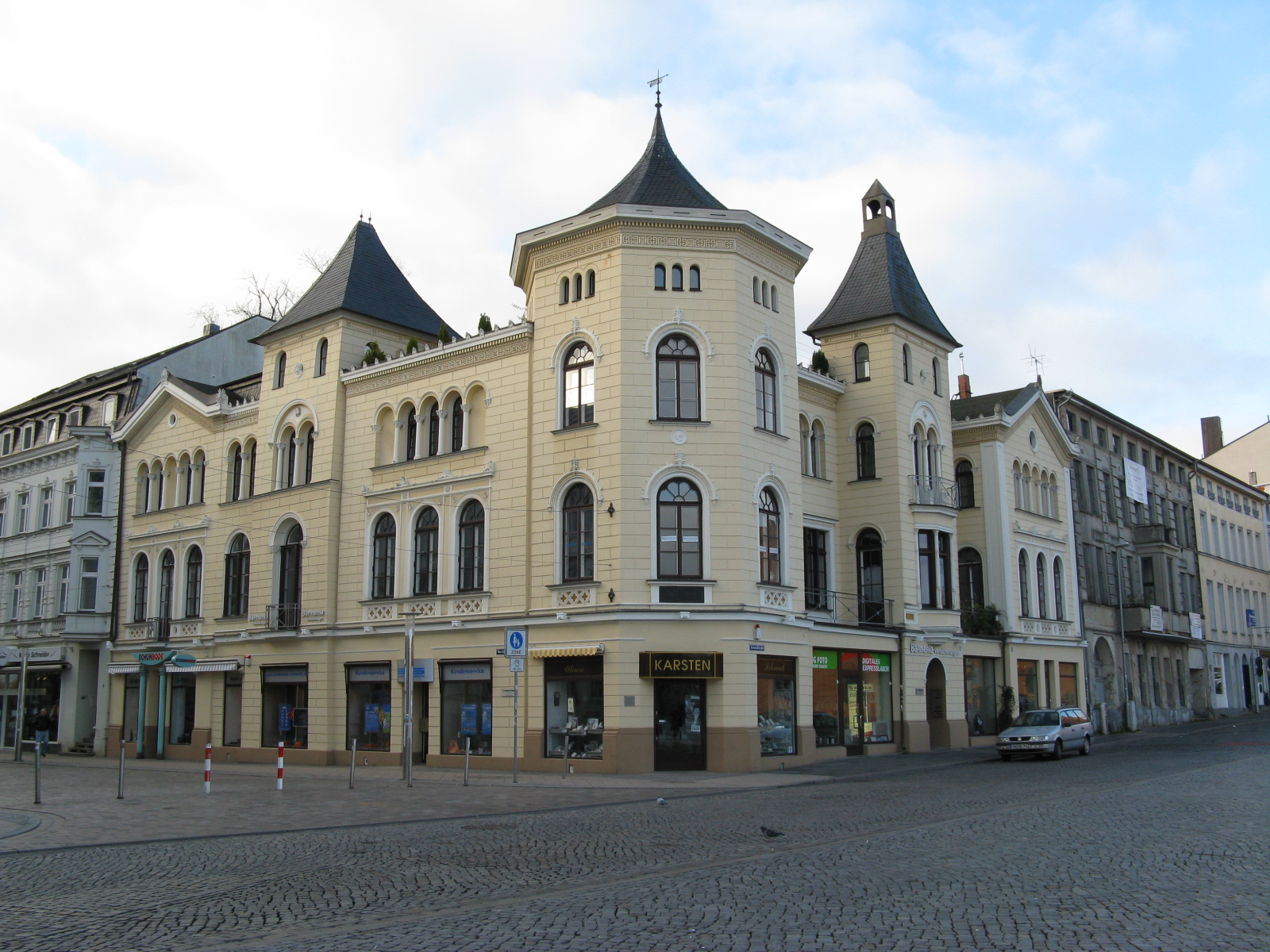 Edge house Arsenalstraße 10/Mecklenburgstraße 1, so called Demmler-Haus, in Schwerin, Mecklenburg-Vorpommern, Germany